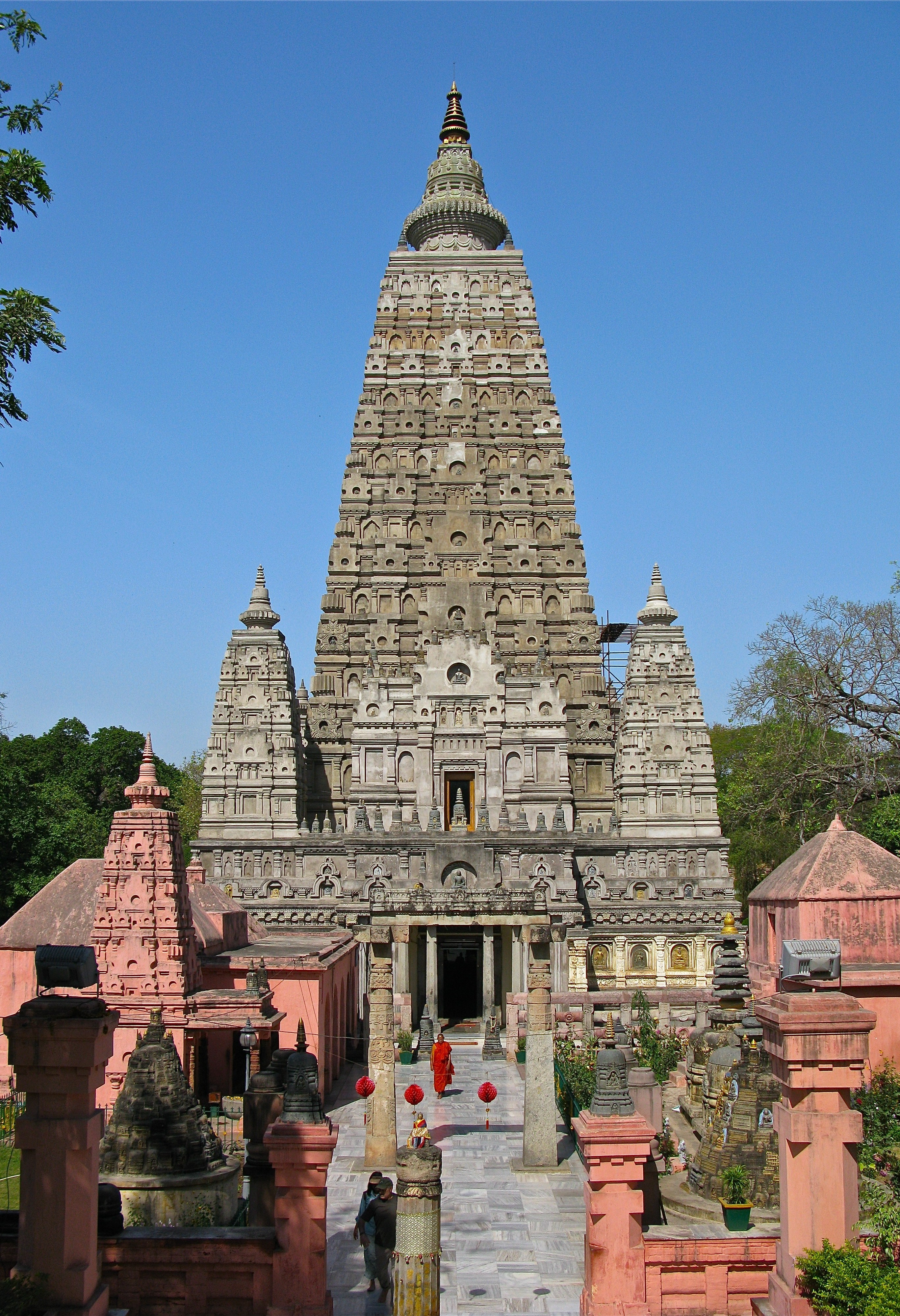 Mahabodhi temple at Bodh Gaya, Bihar, India,, built at the site at which Gautama Buddha attained enlightenment.